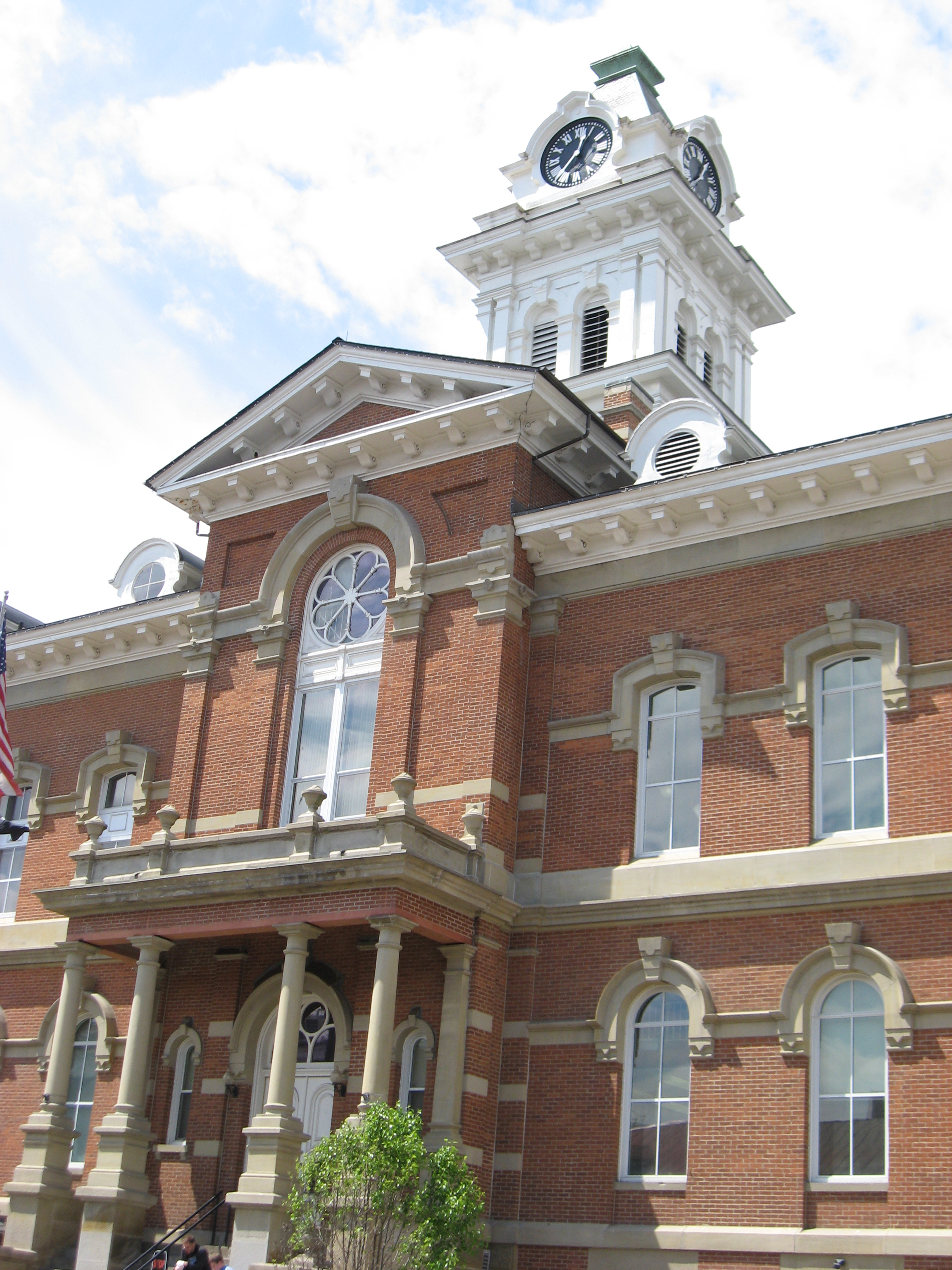 Exterior of the Athens County Court House (South Court Street, Athens, Ohio, USA)